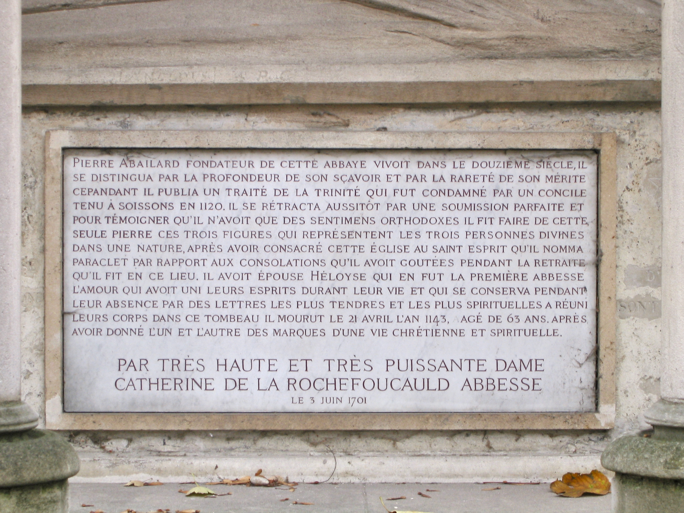 Abélard et Héloïse's tombstone in Père Lachaise Cemetery, in Paris.